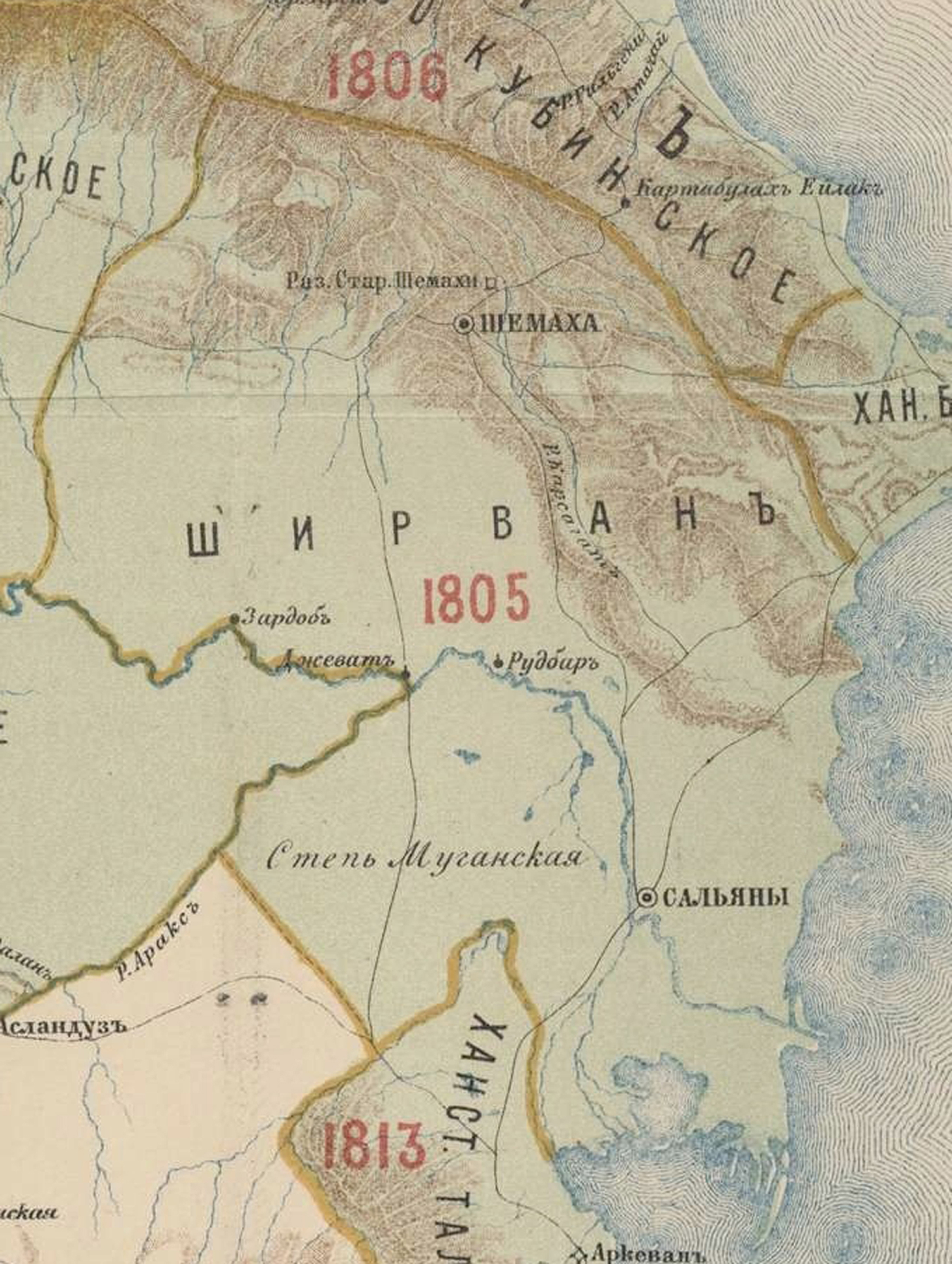 Khanate of Shirvan in the Map of Caucasus with the borders.